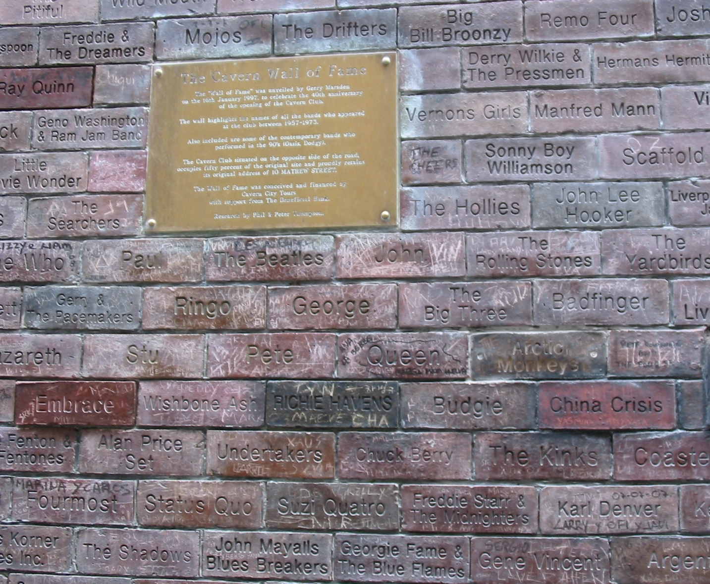 Nrf: Liverpool quotation from description on the wall: The Cavern Wall of Fame The "Wall of Fame" was unveiled by Gerry Marsden on the 16th January 1997, to celebrate the 40th anniversary of the opening of the Cavern Club. The wall highlights the names of all the bands who appeared at the club between 1957-1973. Also included are some of the contemporary bands who performed in the 90's (Oasis, Dodgy). The Cavern Club situated on the opposite side of the road, occupies fifty percent of the original site and proudly retains its original address of 10 MATHEW STREET. The Wall of Fame was conceived and financed by Cavern City Tours with support from The Beneficial Bank. Research by Phil & Peter Thompson.